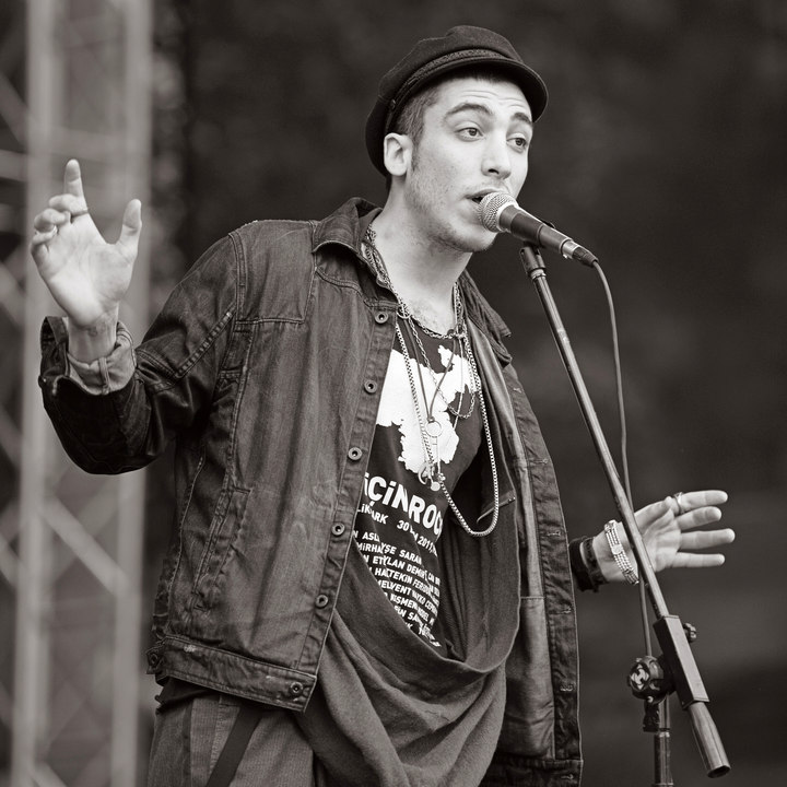 Can Bonomo Van için Rock